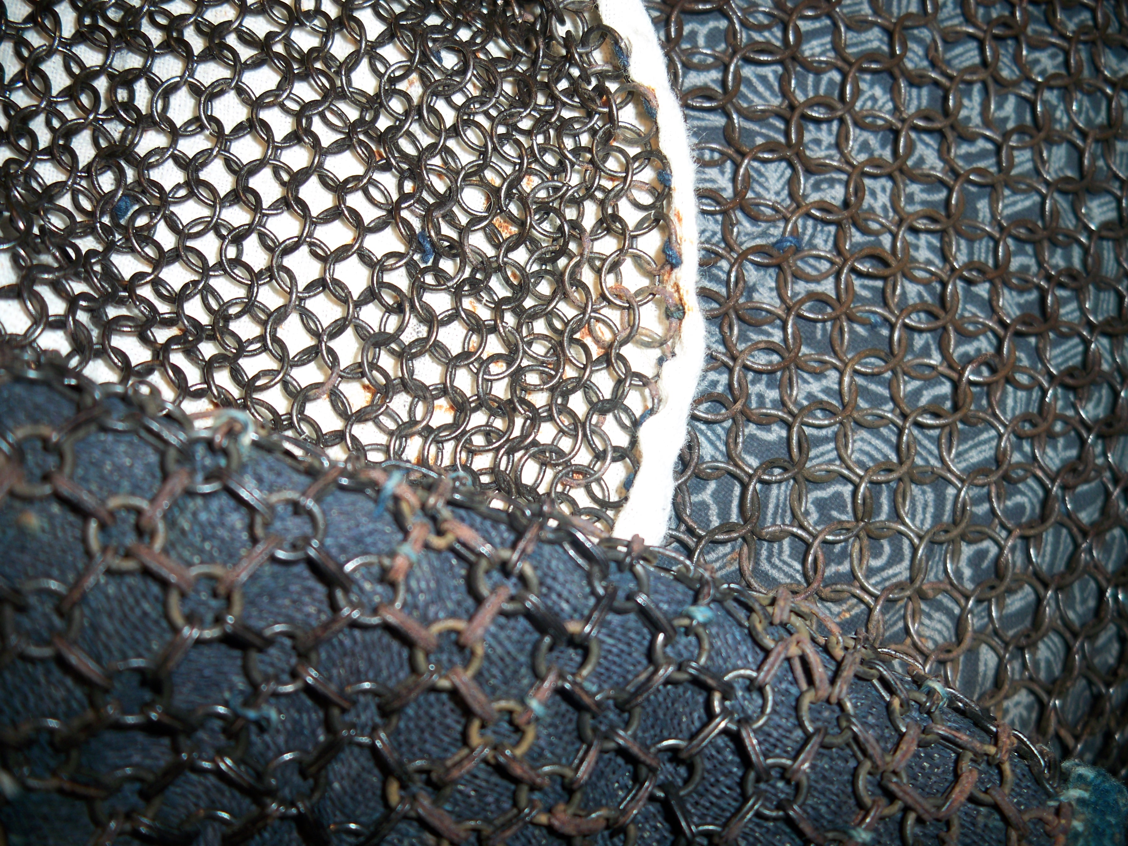 Edo period 1800s Japanese (samurai) chain mail or kusari samples, 2 types of..(4 in 1).....chain pattern.